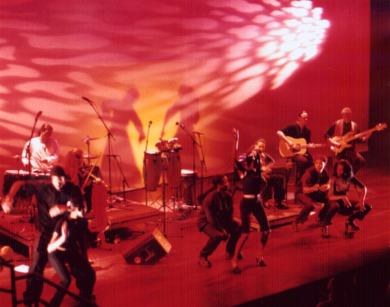 On stage in the 10th anniversary concert in Canada's venerable concert hall, the celebrated Place des Arts. Photo by Dave Bradley, executive assistant to Michael Laucke. If you use this photo, you must use the correct attribution, which is at least: Michael Laucke at Place des Arts.